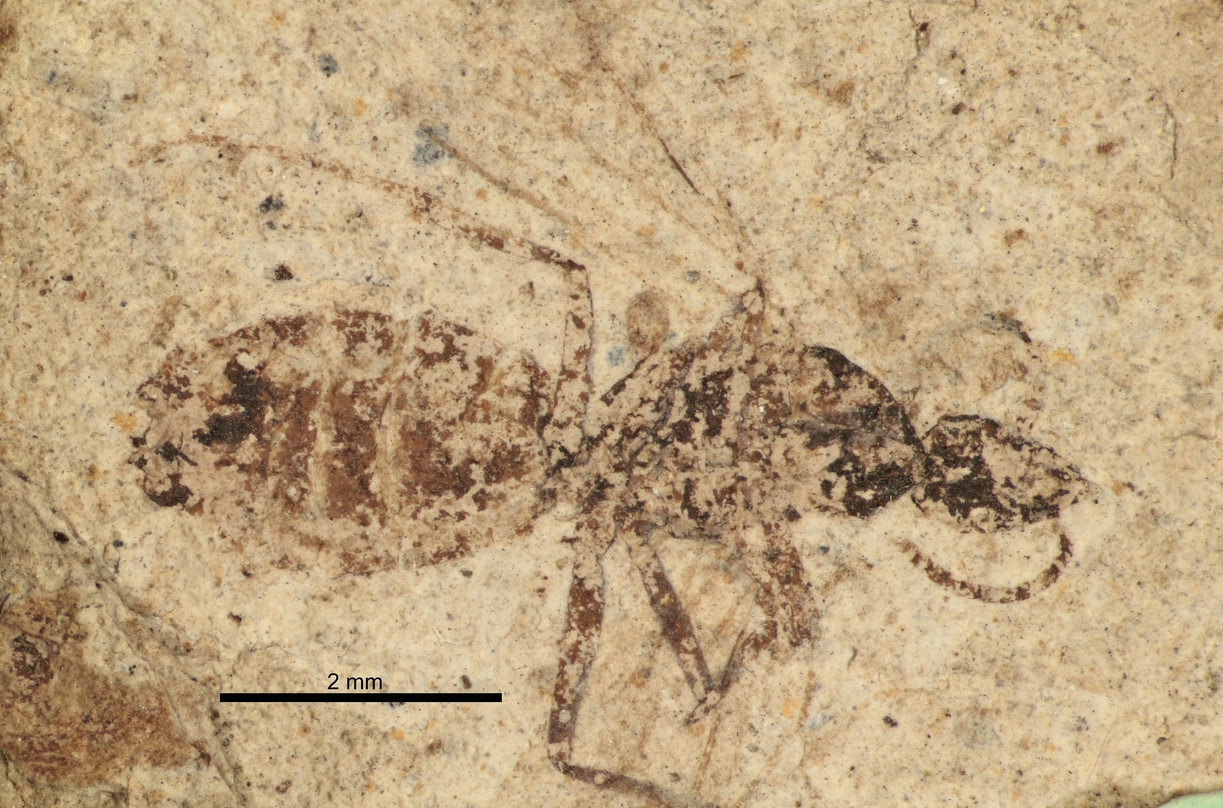 Protazteca elongata specimen